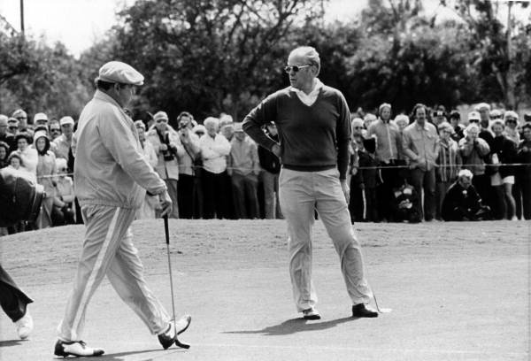 Local call number: PR21628 Title: Gerald Ford playing golf with Jackie Gleason at the Lago Mar County Club: Fort Lauderdale, Florida Date: ca. 1975 Physical descrip: 1 photoprint - b&w - 8 x 10 in. Photographer: Roy Erickson Series Title: Print Collections Repository: State Library and Archives of Florida, 500 S. Bronough St., Tallahassee, FL 32399-0250 USA. Contact: 850.245.6700. Persistent URL